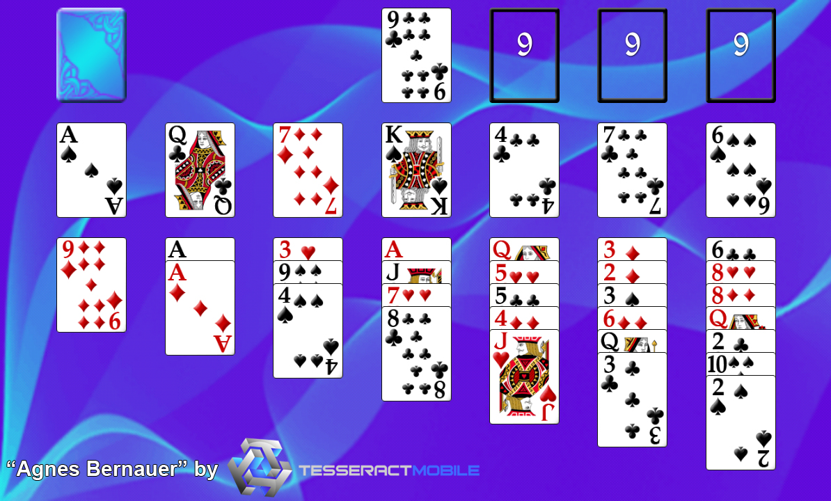 This is a screenshot of the solitaire game Agnes Bernauer layout.